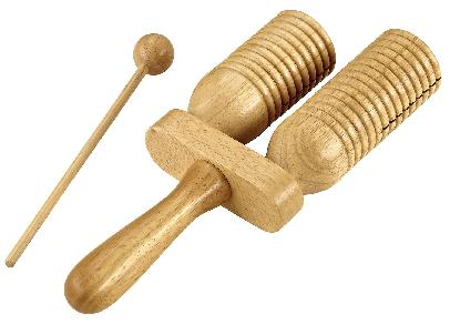 Idiophone